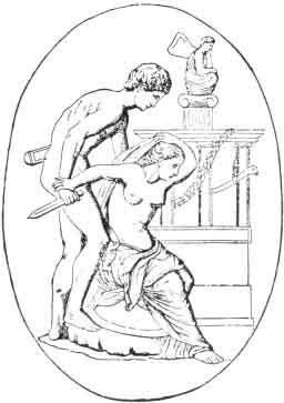 Polyxena dies by the hand of Neoptolemus on the tomb of Achilles.—After an ancient cameo in Berlin. from "THE HISTORY OF THE DEVIL AND THE IDEA OF EVIL FROM THE EARLIEST TIMES TO THE PRESENT DAY" by Paul Carus (1900)